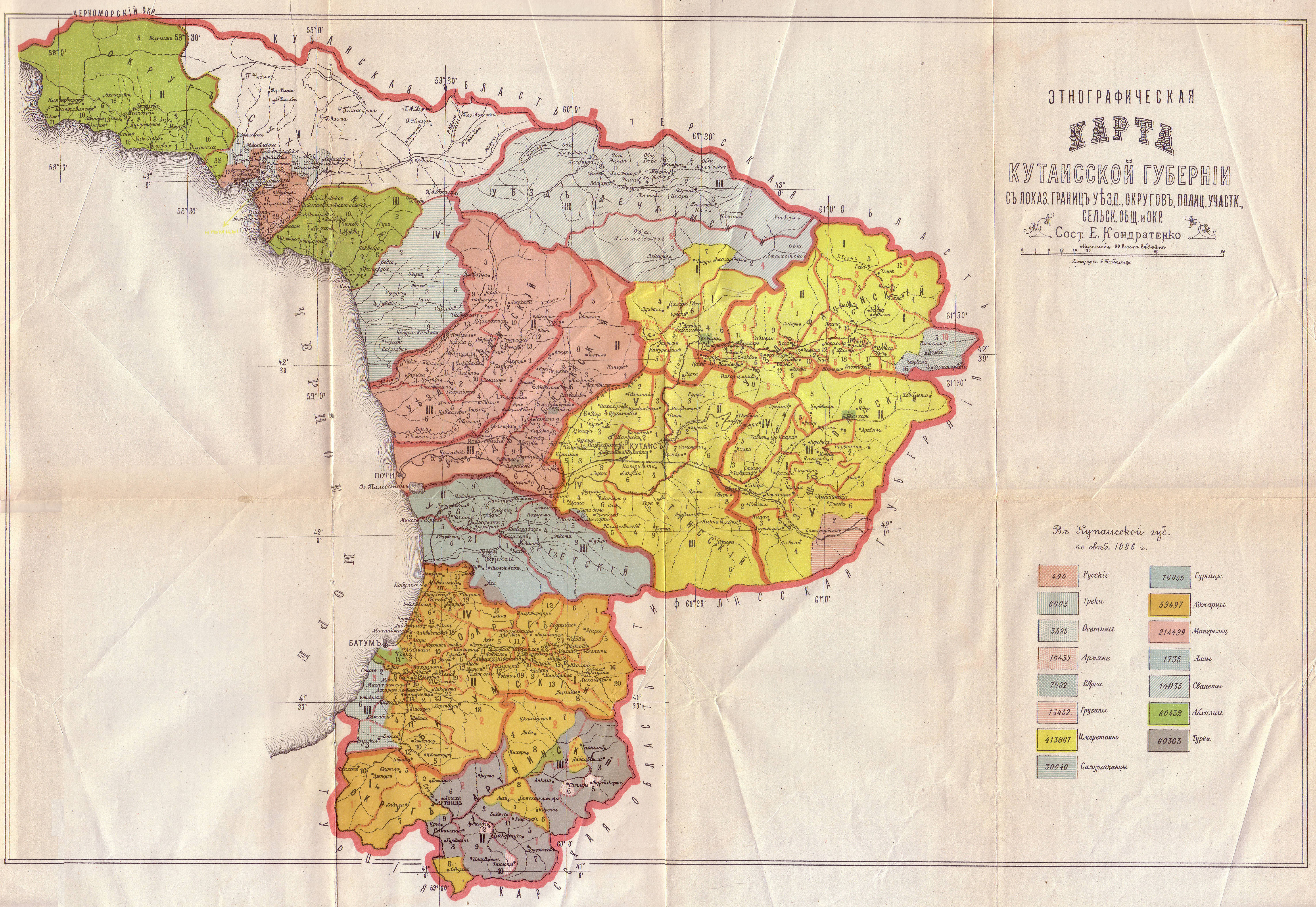 Ethnographic map of the Kutais Governorate